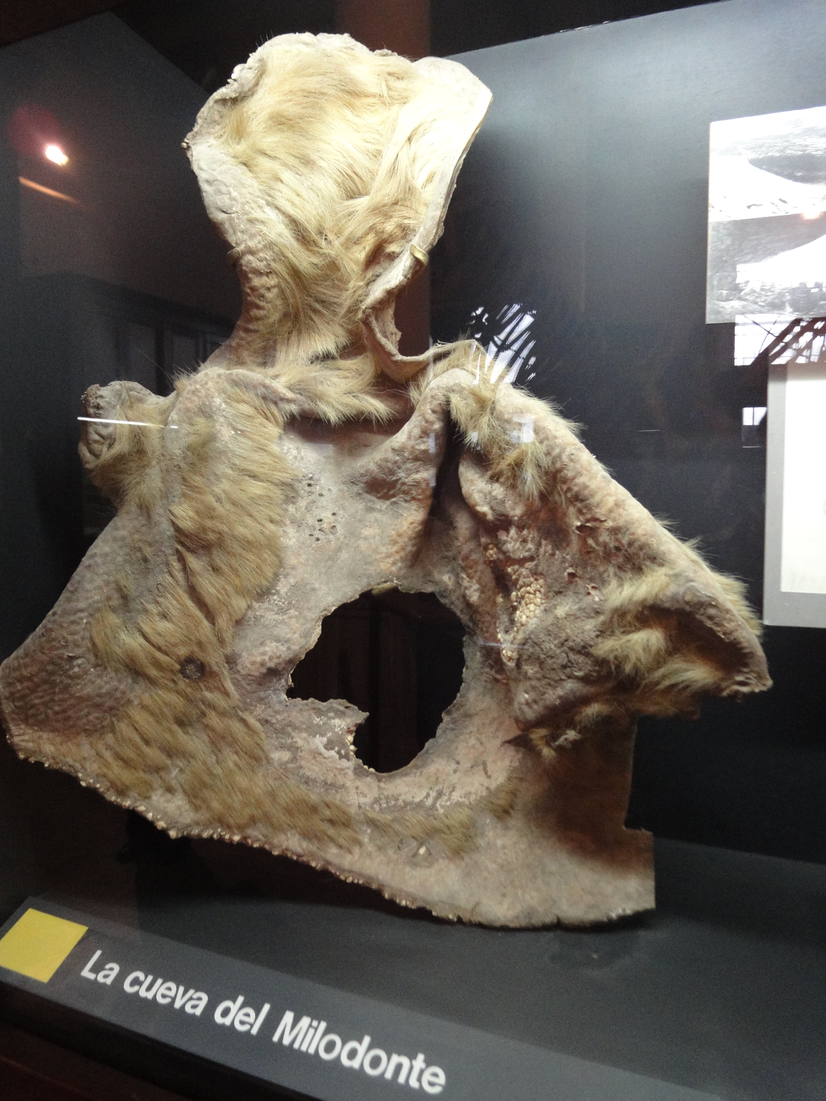 Mylodon listai also named Mylodon darwini, skin at Museo de La Plata